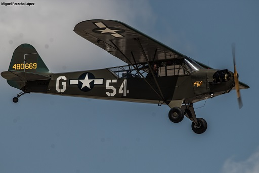 Operated by the FIO